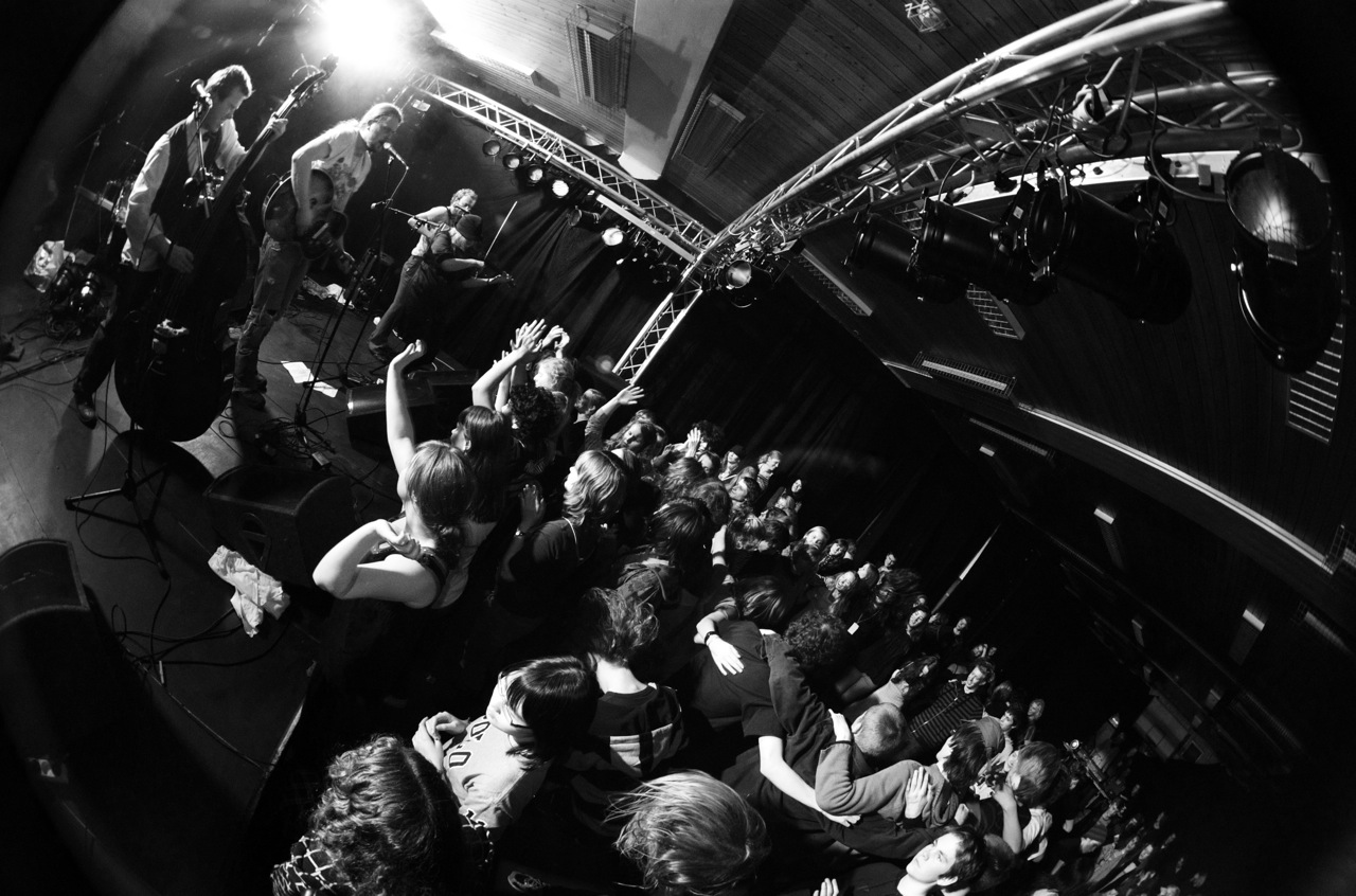 Kattarock 2008, the band Lady moscow